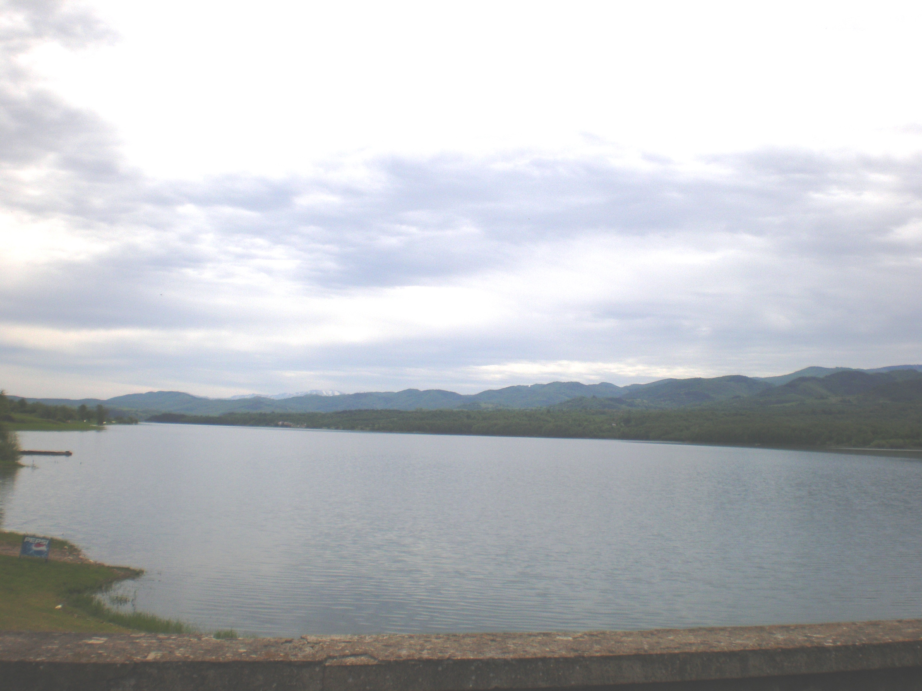 Sopot Dam, Bulgaria near Sopot, Lovech District